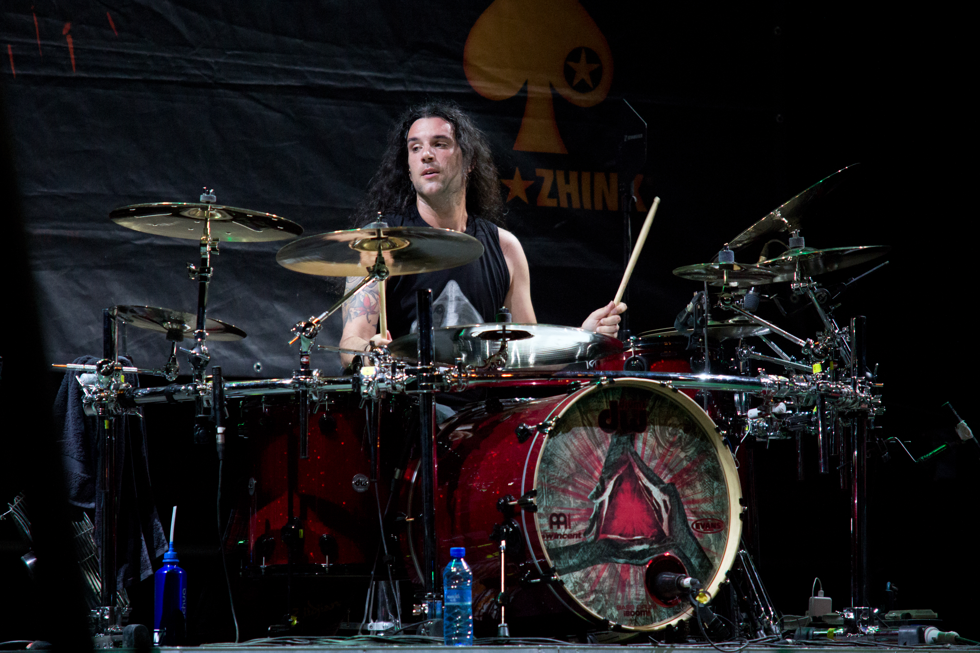 Spanish metal band Sôber at Asaco Metal Fest 2013, Parla, Spain.